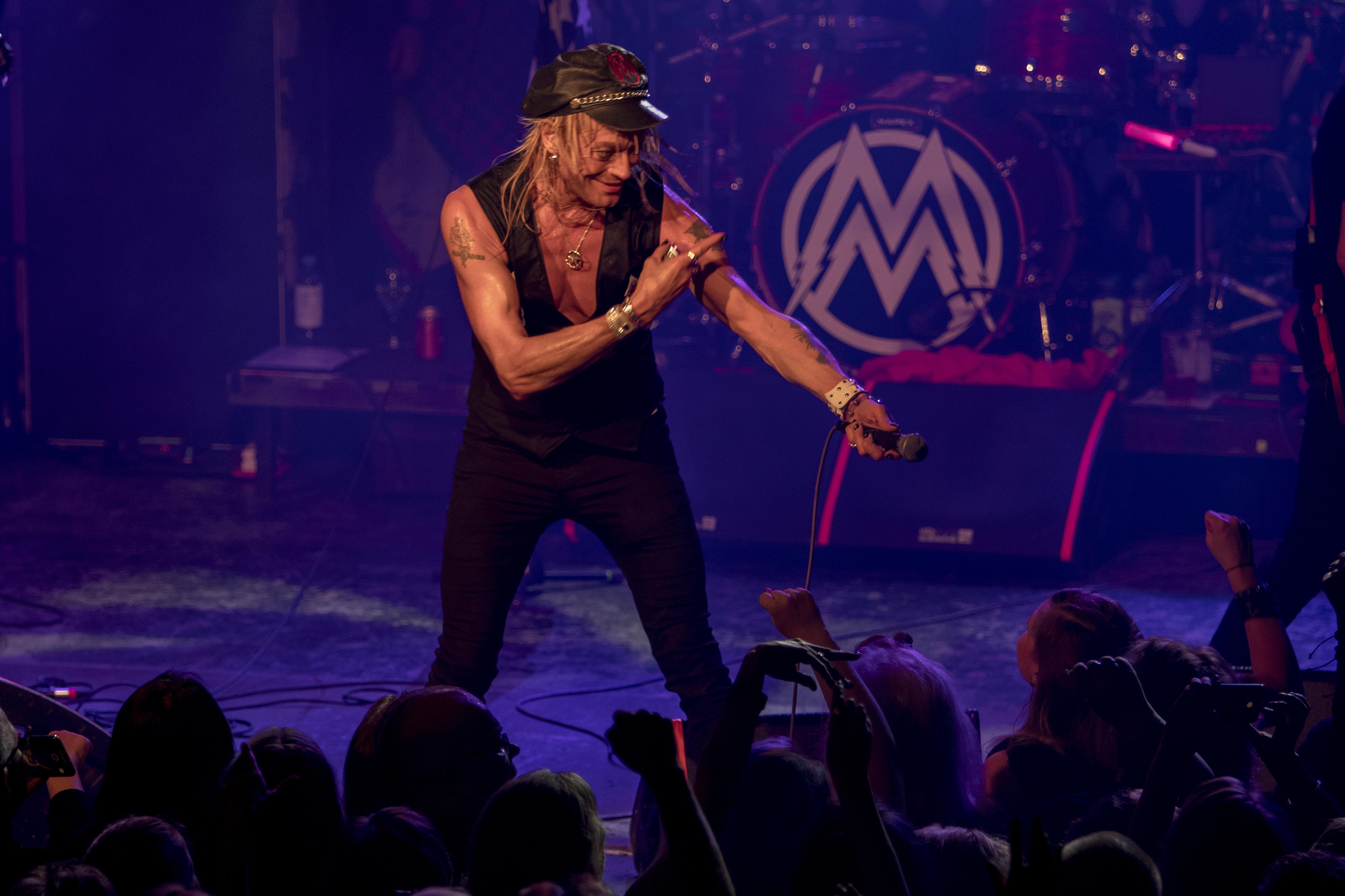 Michael Monroe during a concert in Tavastia Club, Helsinki (Finland), 19 October 2019